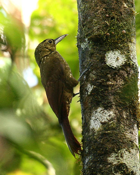 Spotted Woodcreeper (Xiphorhynchus erythropygius) at Milpe Bird Sanctuary, NW Ecuador.